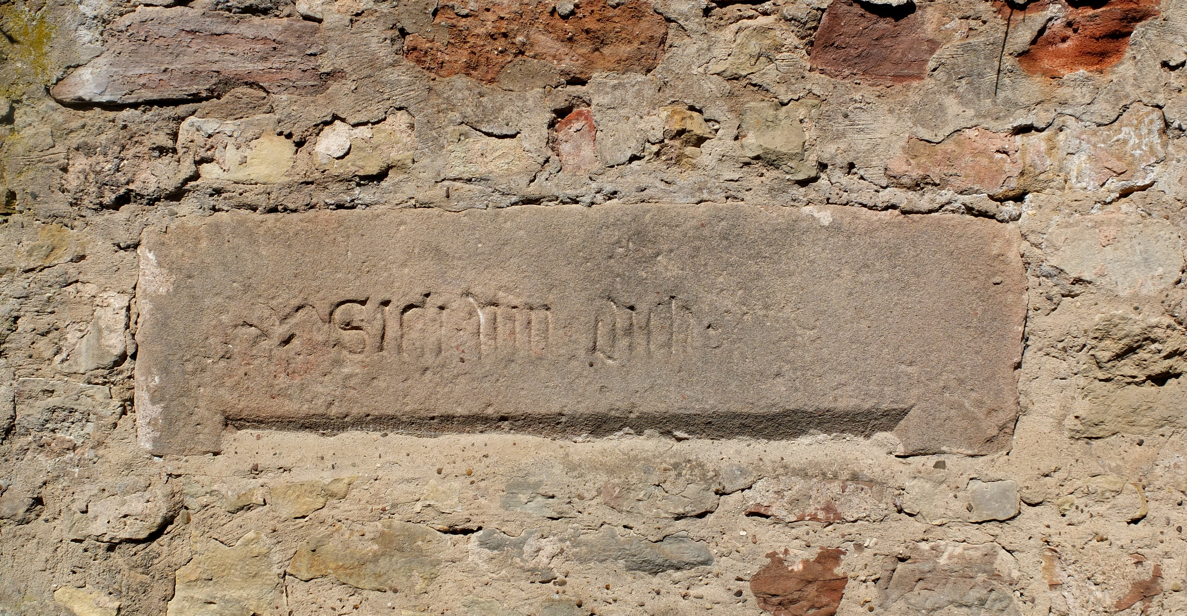 Medieval street name sign "Sieh um Dich" (Look around), a re-used lintel of a demolished building, Trier, Germany.